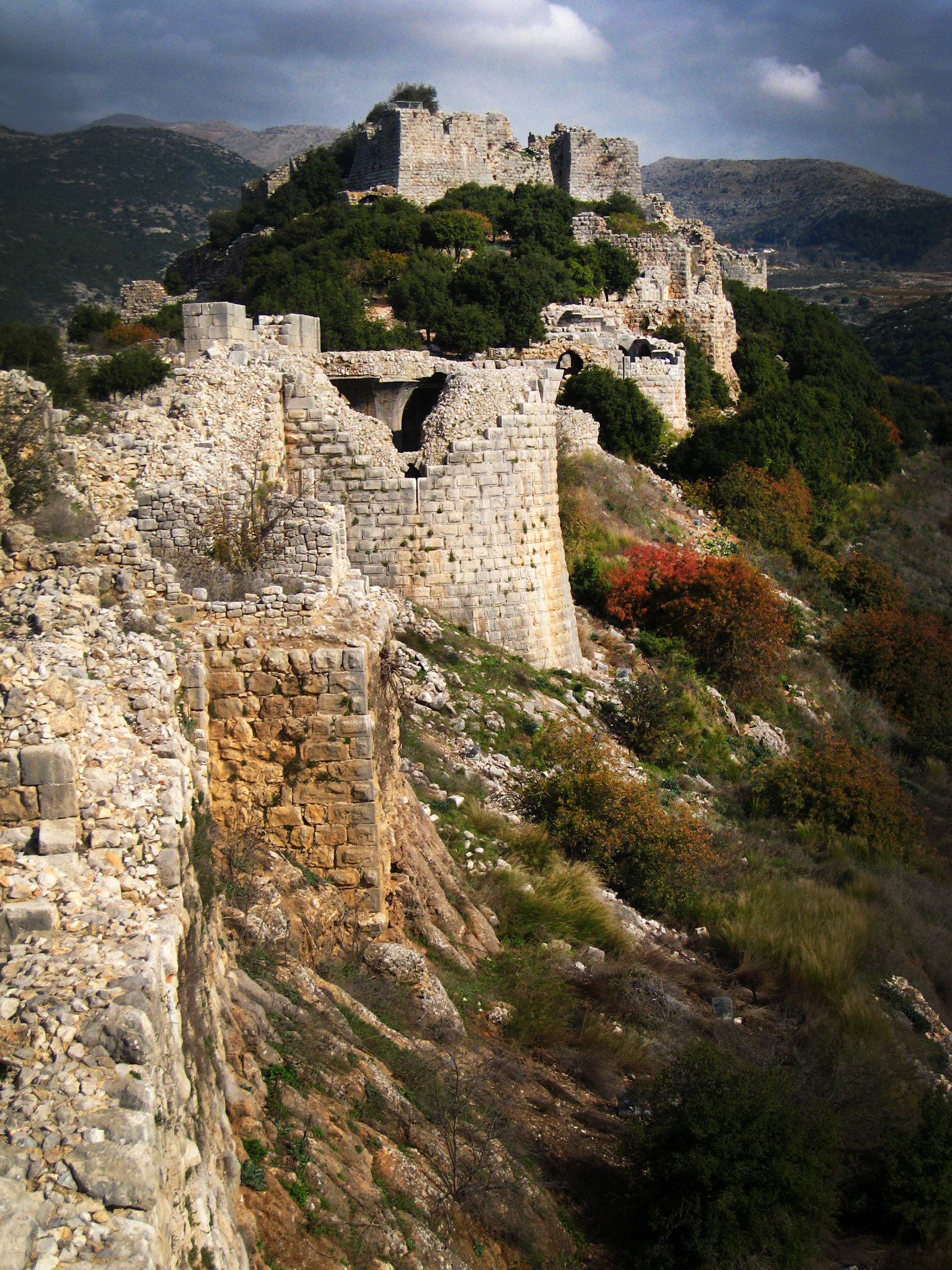 Nimrod Fortress in northern Israel